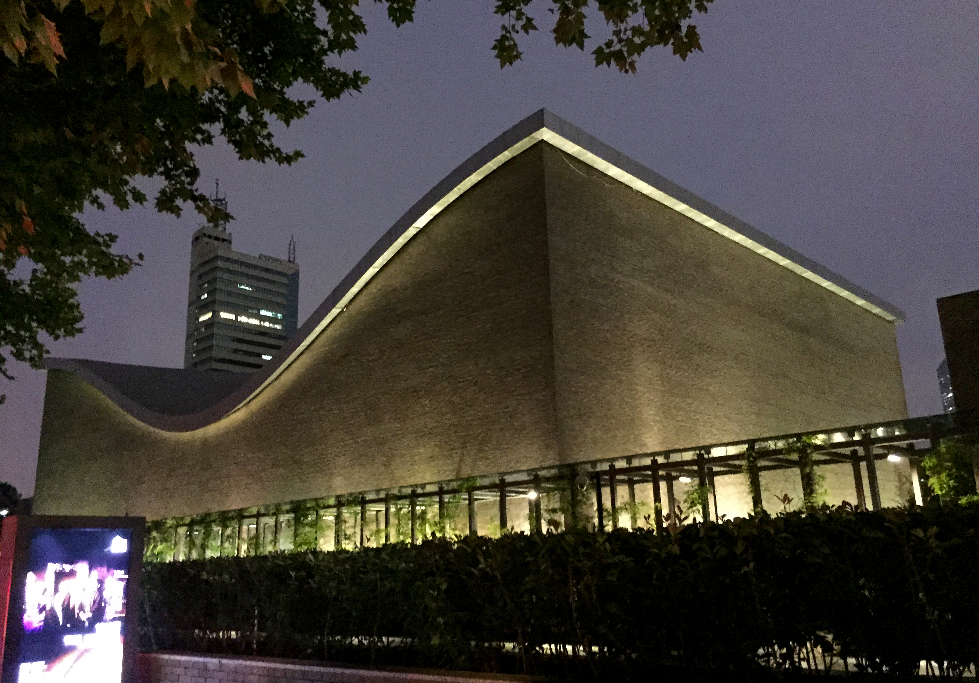 Finally come to the "Wonton Wrapper" again. The roof does look like a wonton wrapper, and this official nickname was revealed in 2014.